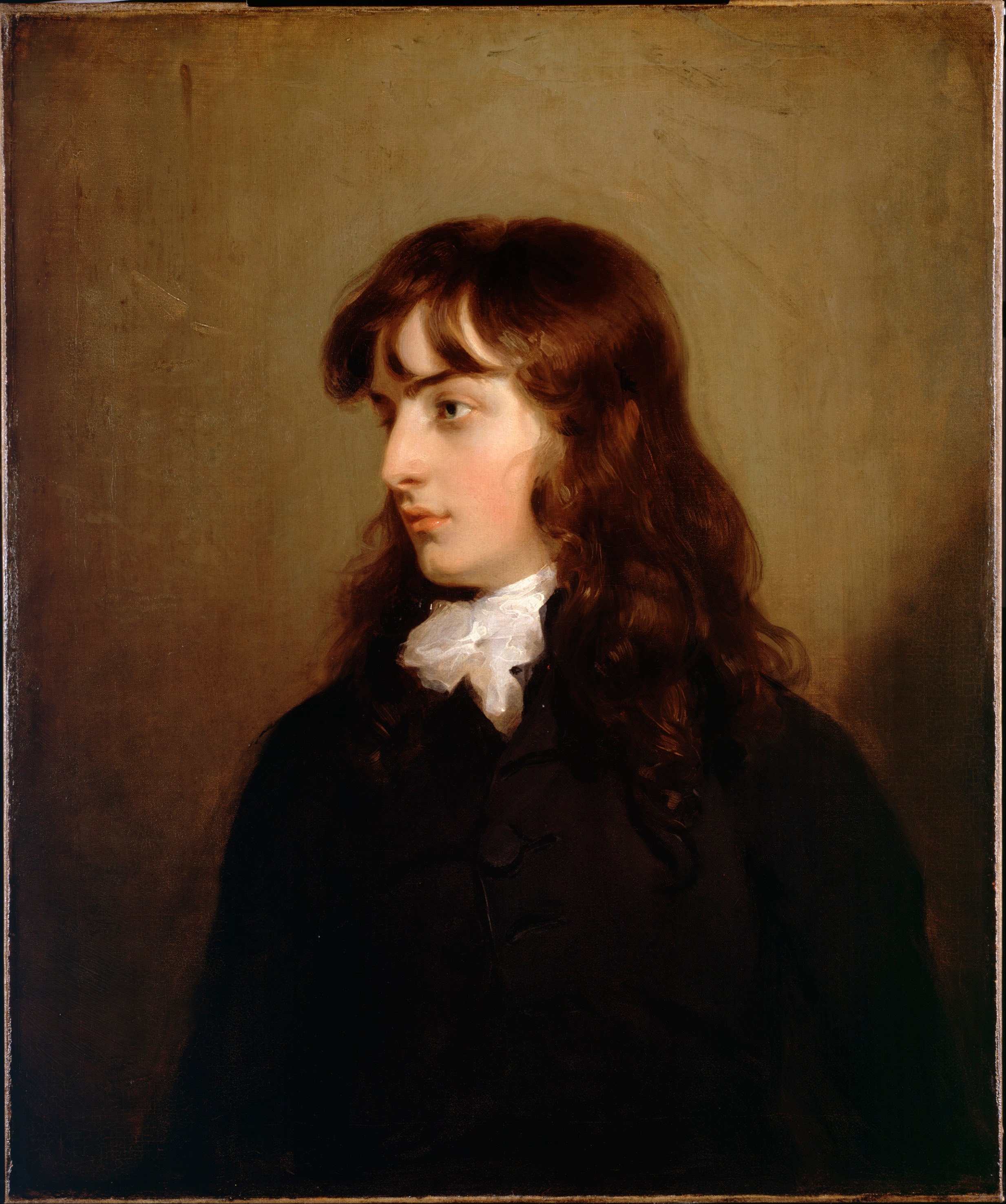 Portrait of William Linley (1771-1835), aged around 18 years